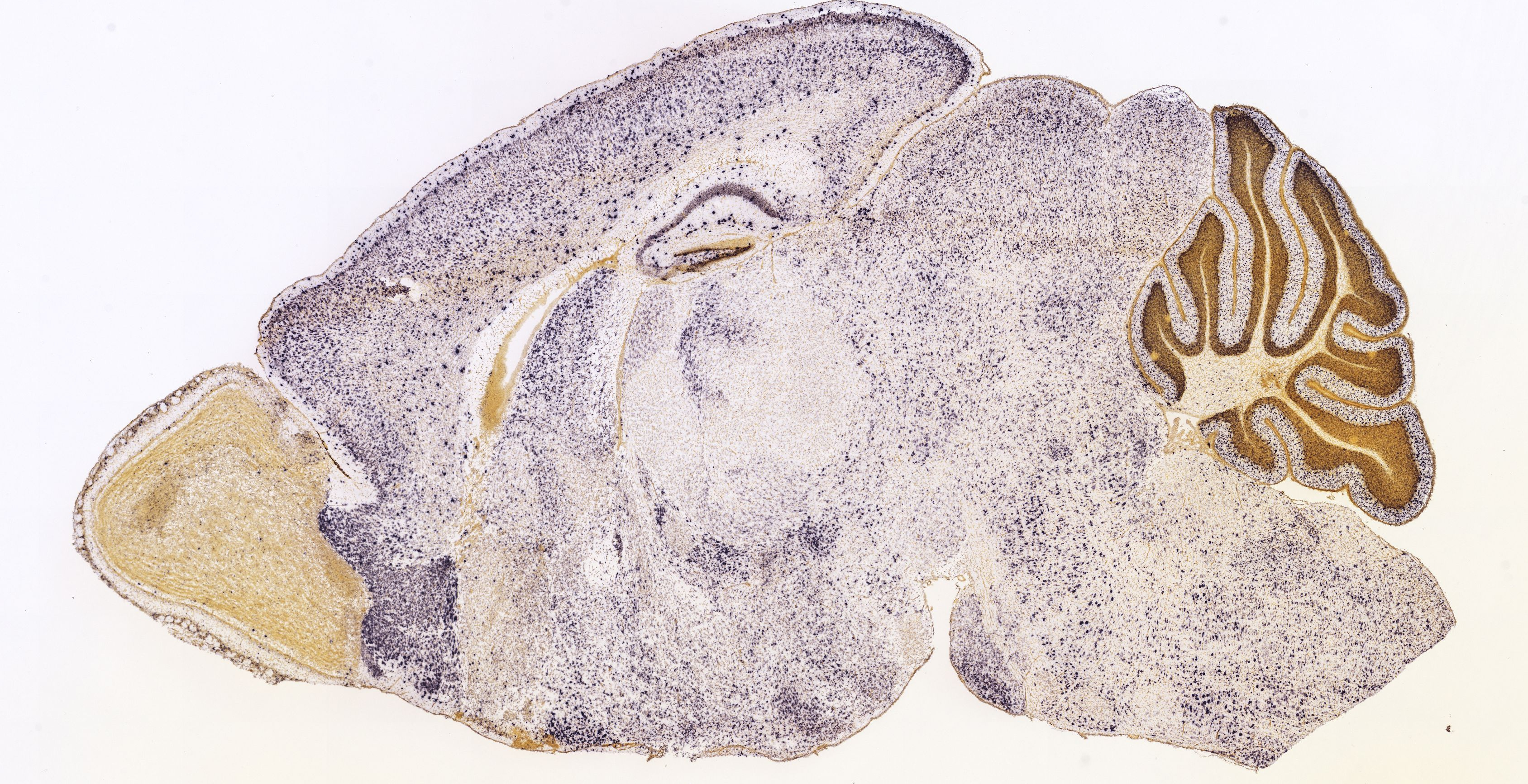 An RNA in situ hybridization (ISH) image showing CNR1 gene expression in the P14 day mouse with a conspicuous absence in the thalamus.